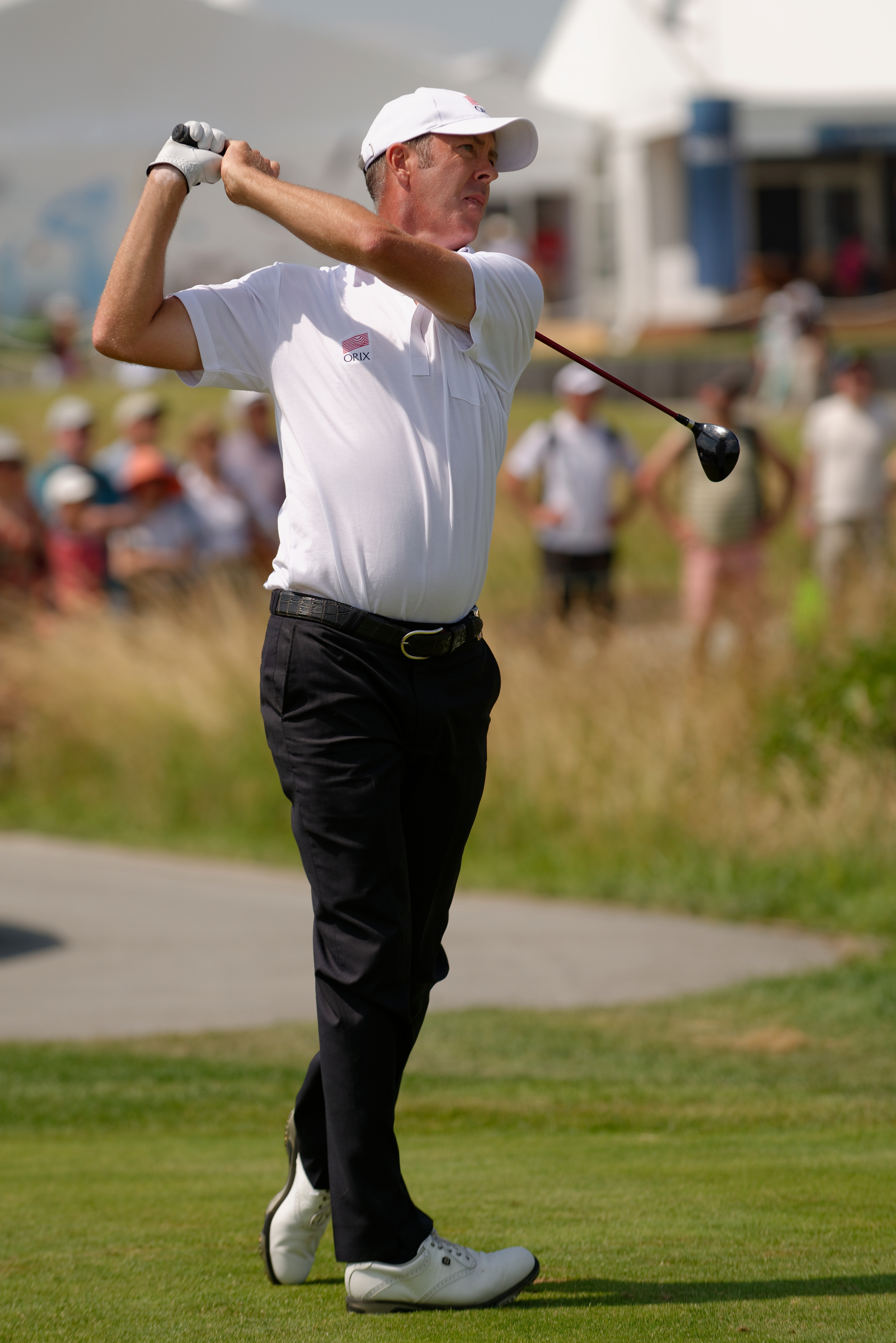 Australia's Richard Green tees off at the 10th hole during the last round of the French Golf Open at the Golf National in Saint Quentin en Yvelines, Sunday July 7th 2013.